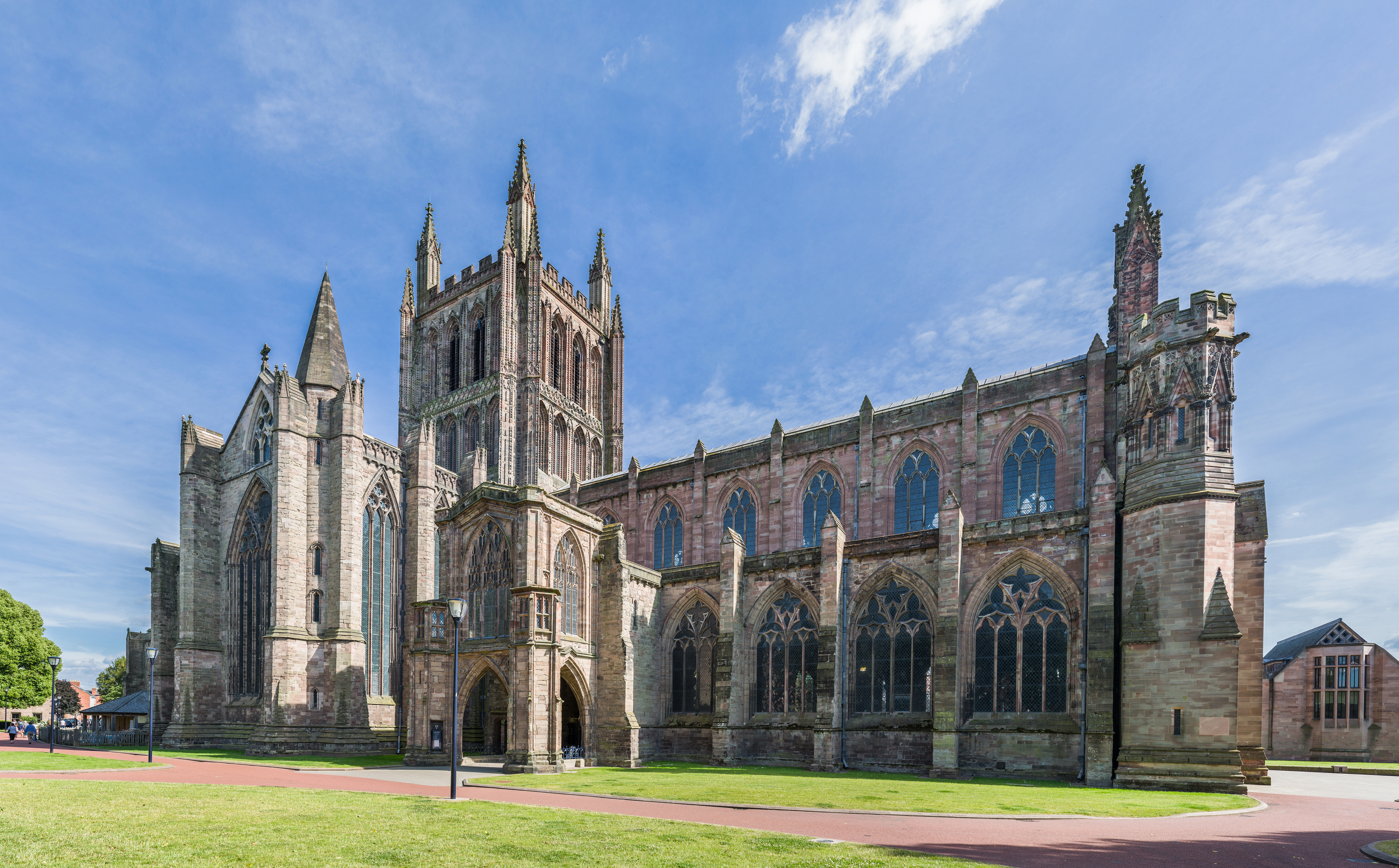 Hereford Cathedral as viewed from the north-west in Herefordshire, England.